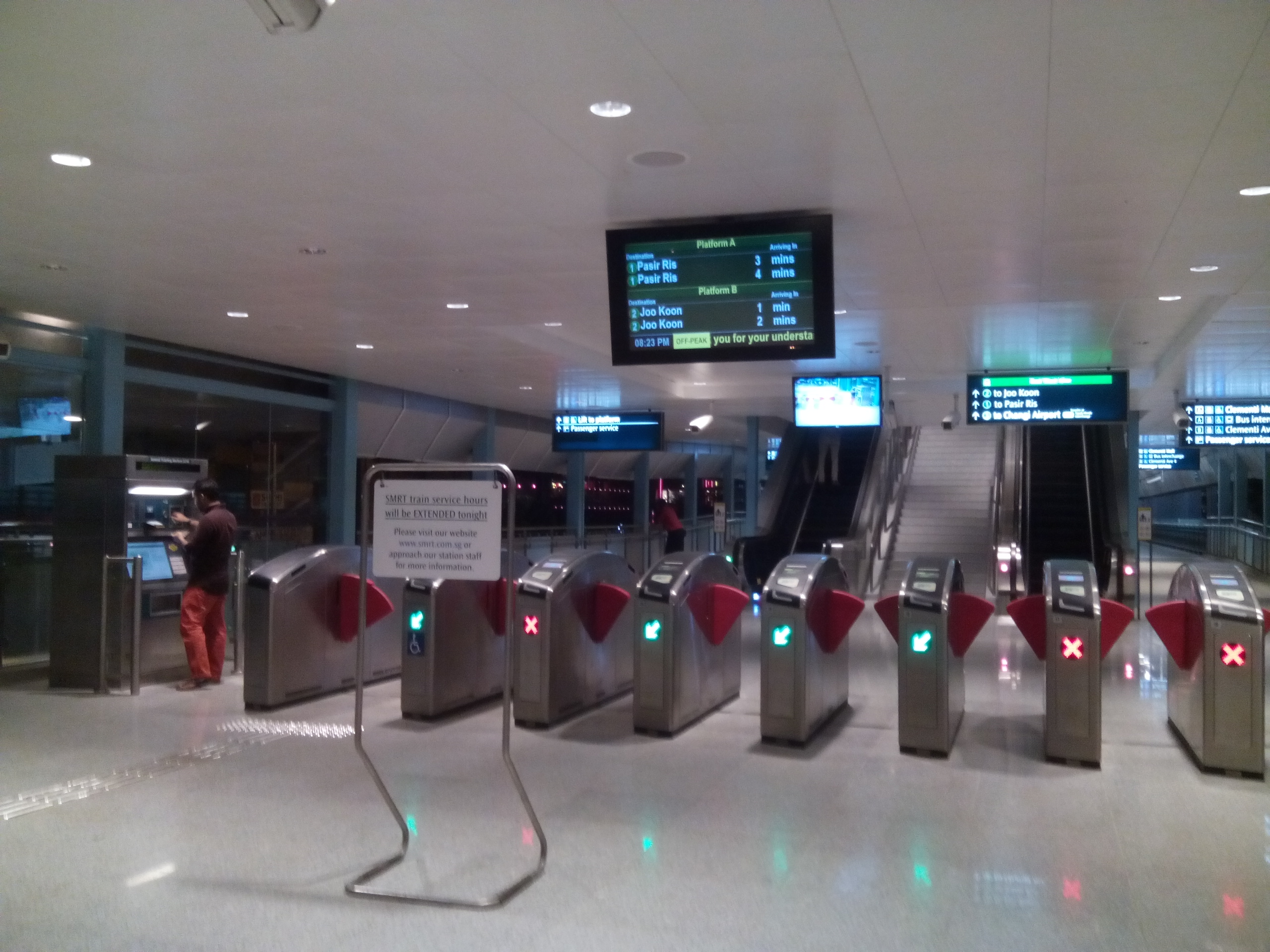 Clementi MRT Station, the new exit completed in 2015. While, this shows the faregates.